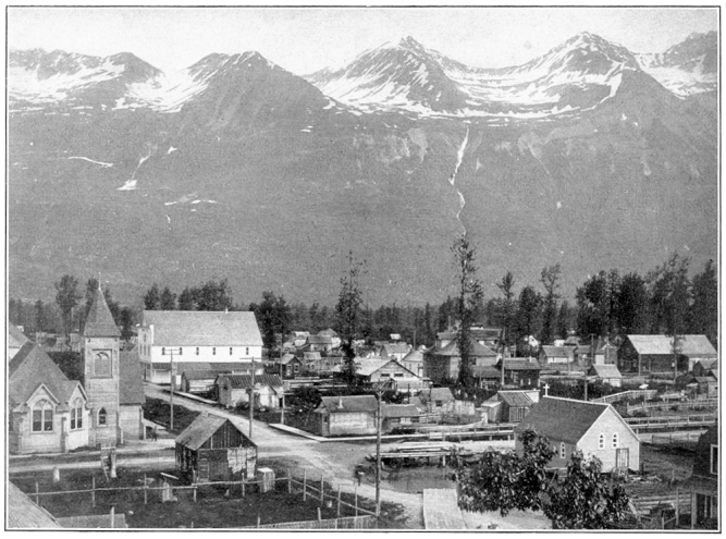 1905 photograph of Valdez, Alaska, as published in Ella Higginson's "Alaska, the Great Country" (1910). The original caption read: Valdez; P. S. Hunt.